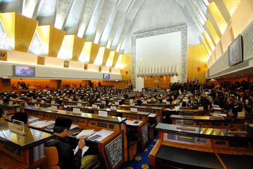 The Malaysian Parliament in sitting, 2008.